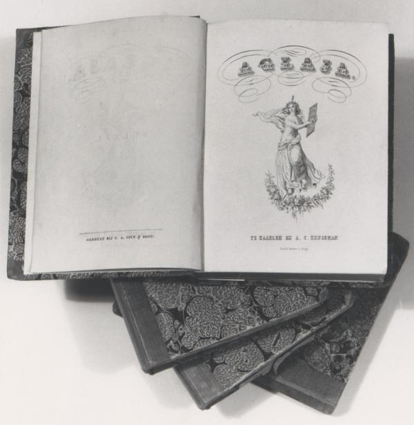 Bound volumes for the years 1848-1850, 1853 of the Dutch fashion and needlework magazine Aglaja, mentioned in the novel Max Havelaar (1860) by Multatuli.